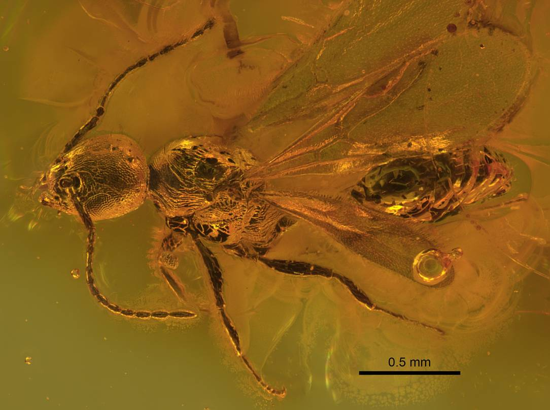 Profile view of the Eocenomyrma ukrainica holotype specimen alate male. Priabonian, Eocene; Rovno amber, Klesov, Ukraine Schmalhausen Institute of Zoology, National Academy of Sciences of Ukraine, Kiev SIZK K-3076 Antweb specimen CASENT0917550